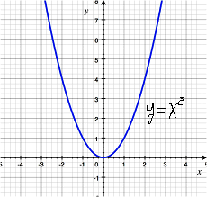 qrafik